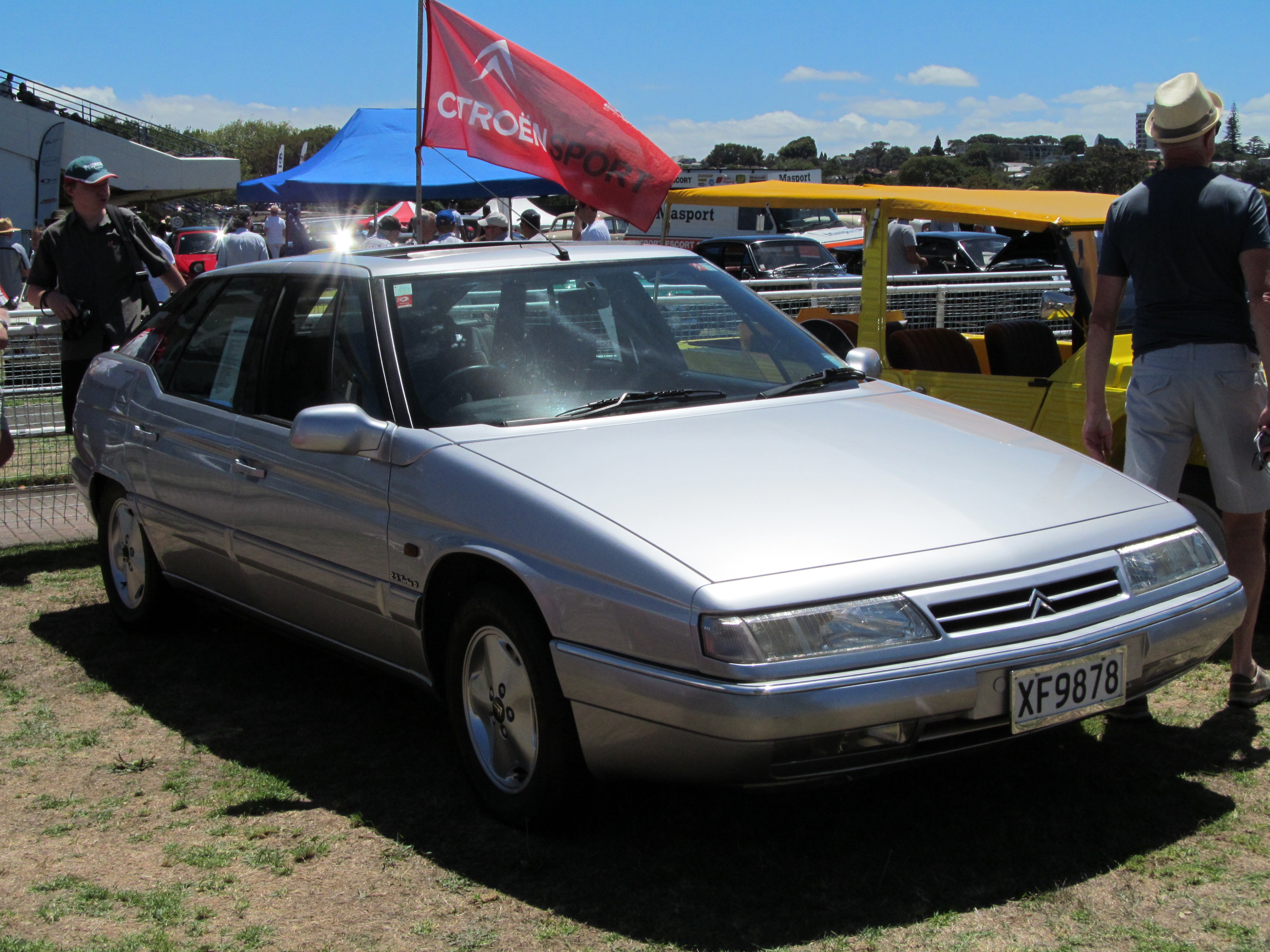 XF9878 Easily the newest XM I've seen, I spotted this at the Ellerslie concours up in Auckland earlier this year. I still think these are awesome, but the C6 might be SLIGHTLY cooler... The license plate is the original 1998 issue number, but the owner appears to have replaced the original with a newer 2006-on font plate (sort of like what some people do in the UK with the 'Charles Wright' plates.)